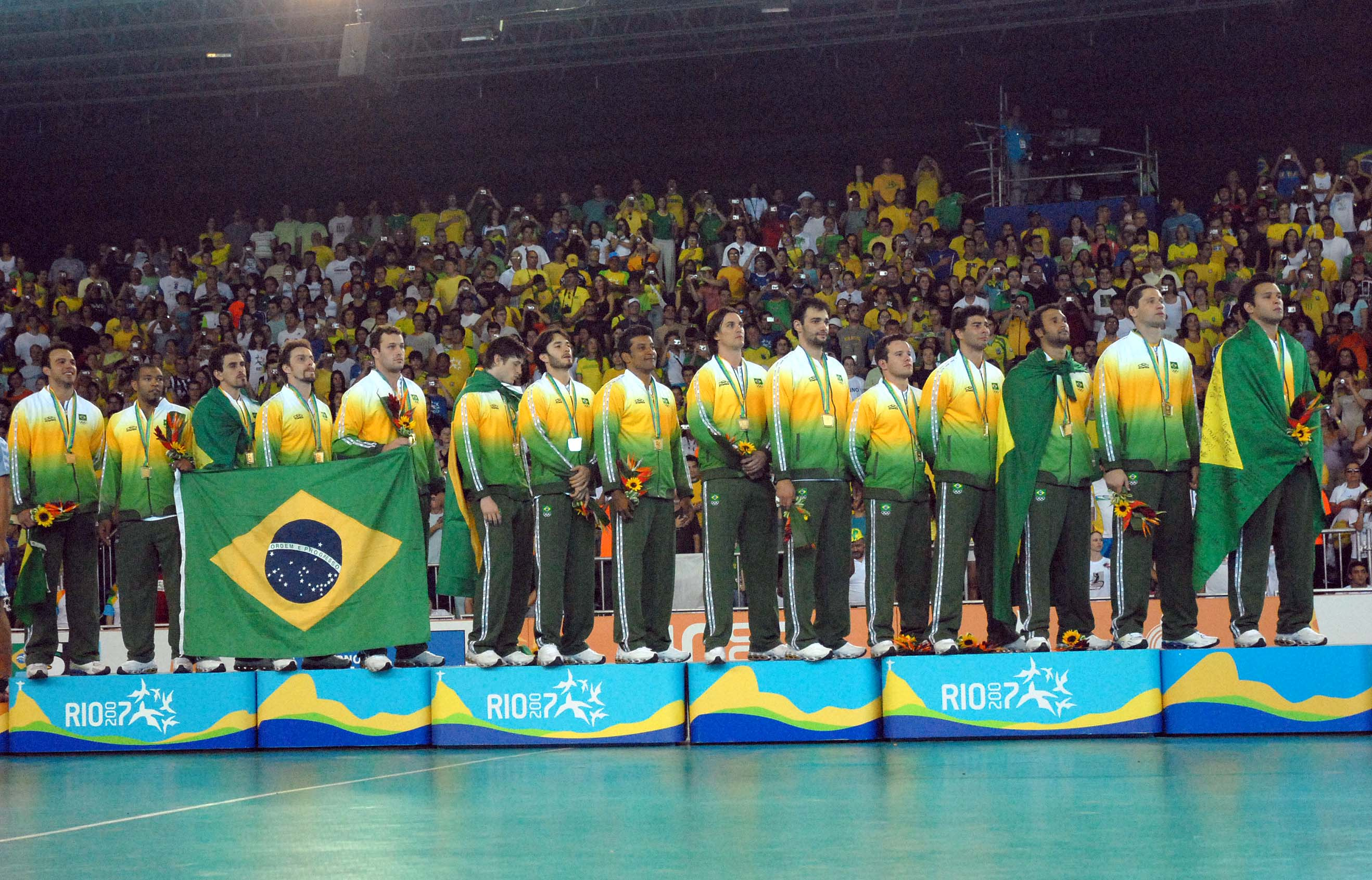 The Brazilian Men's Handball team wins the 2007 Pan American Games